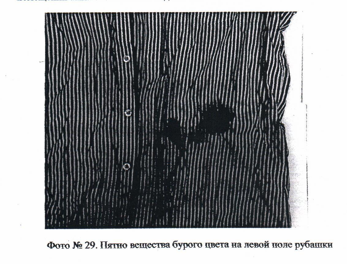 Рубашка Леонида